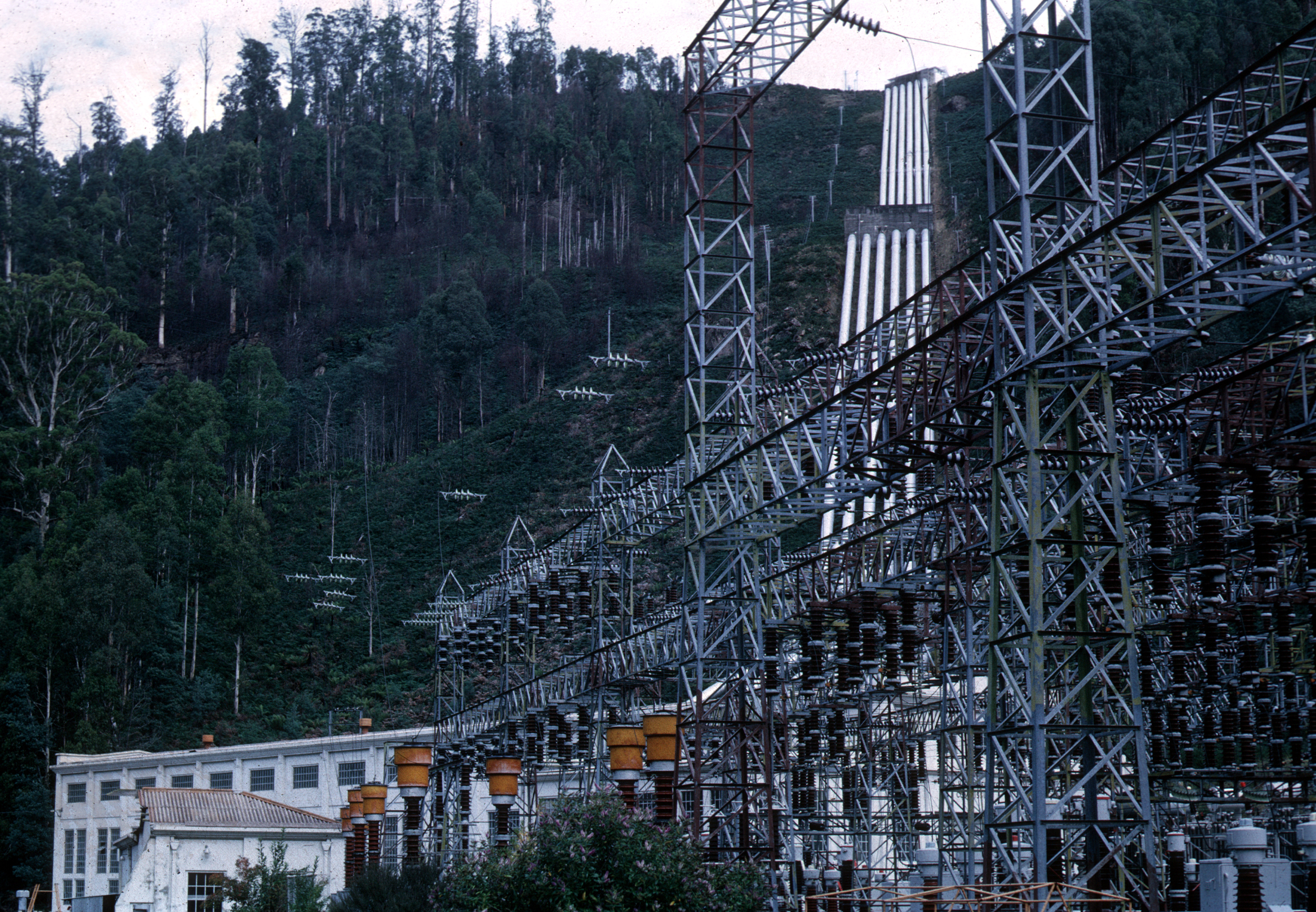 Tarraleah substation in front of Tarraleah Hydroelectric Power Station, Tasmania.